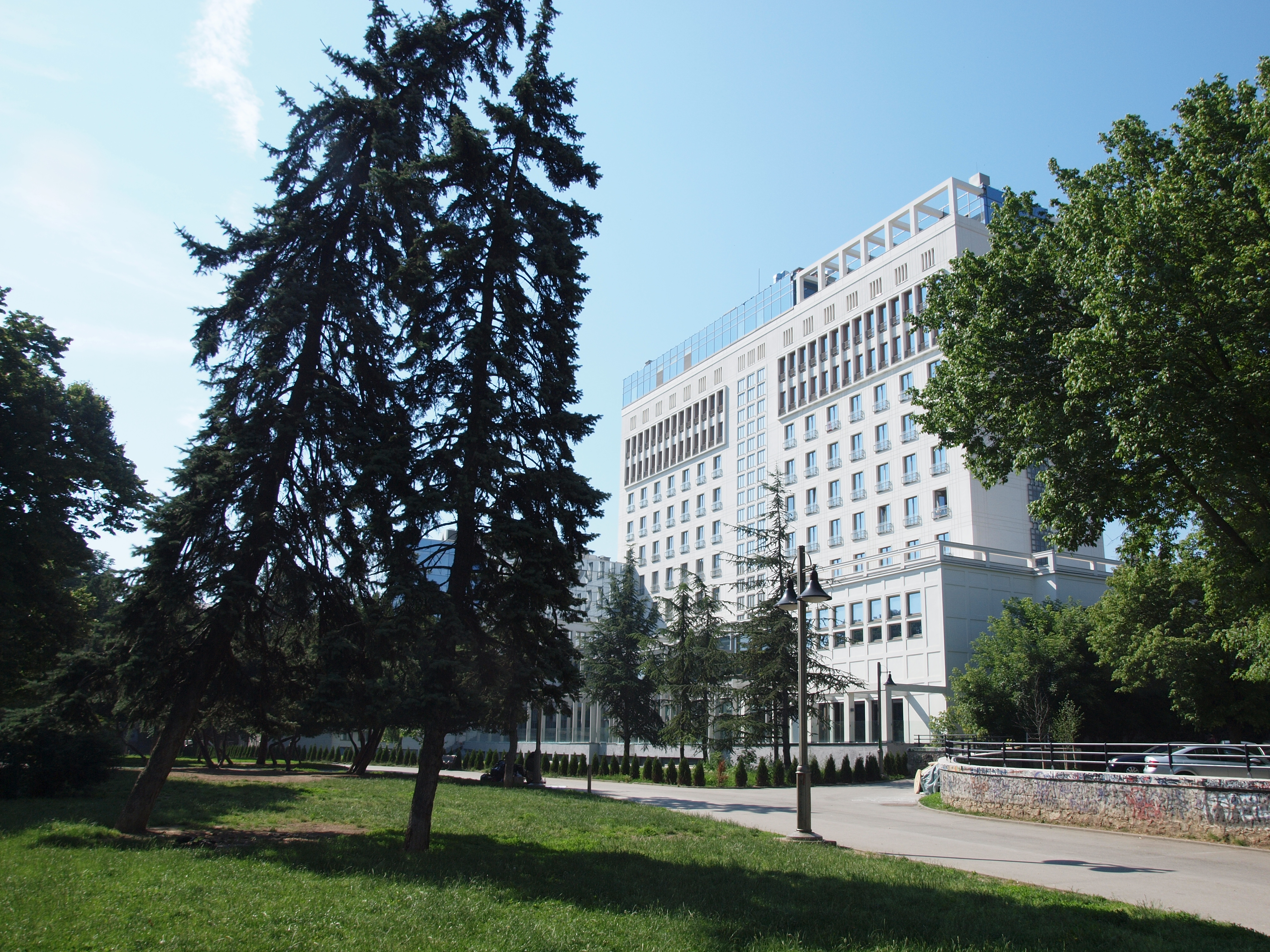 Hotel Metropol Belgrade mali Tasmajdan